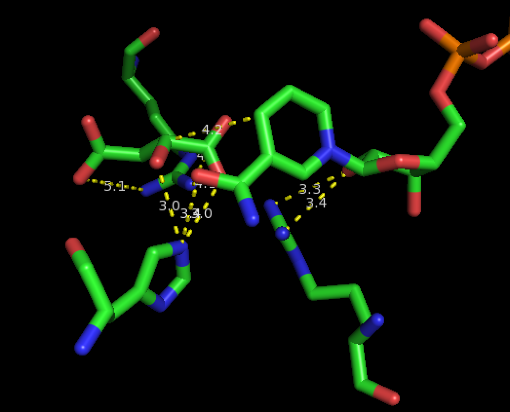 active site and key catalytic residues of E. coli 3-phosphoglycerate dehydrogenase based on 2g76 rendering